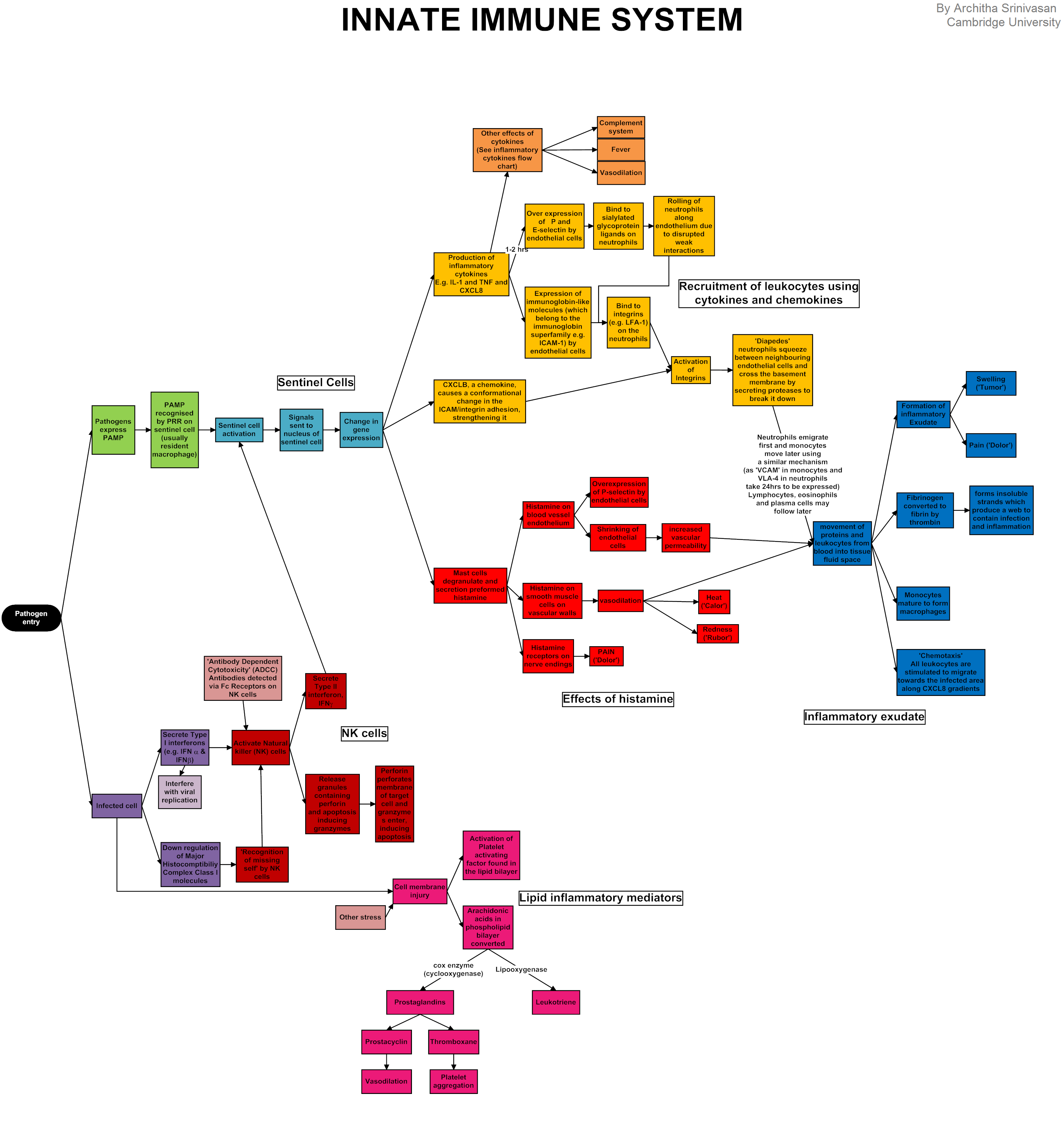 Flow diagram showing a summary of innate immune system